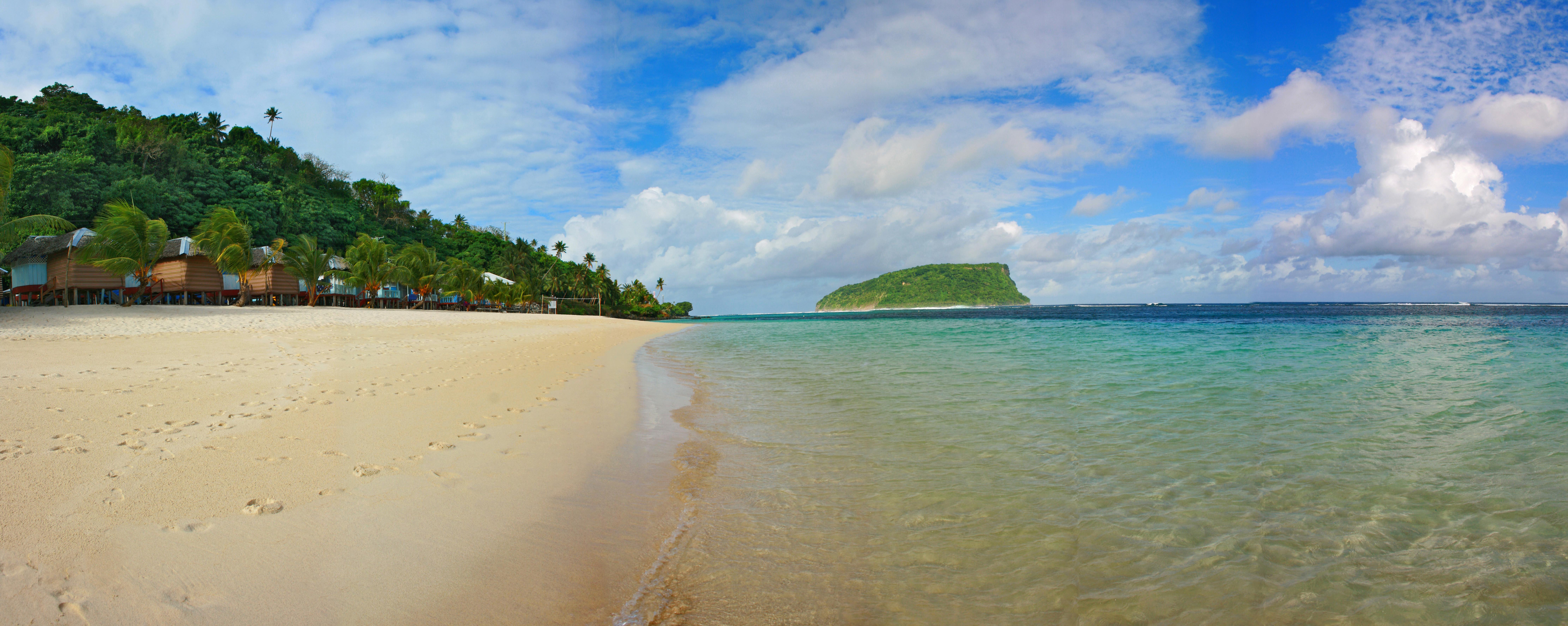 Lalomanu Beach with Nu'utele island off the east coast of Upolu in Samoa. Panorama made from 6 photos in potrait